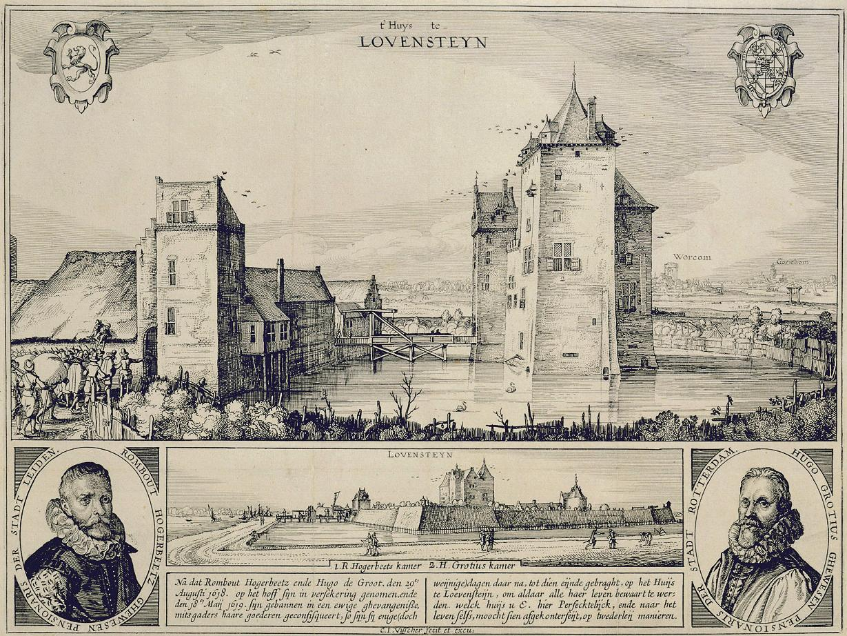 De aankomst van Hugo de Groot en Rombout Hogerbeets op slot loevestein, 1619. Linksboven de steden Woudrichem en Gorinchem. Onder de portretten van de veroordeelden.